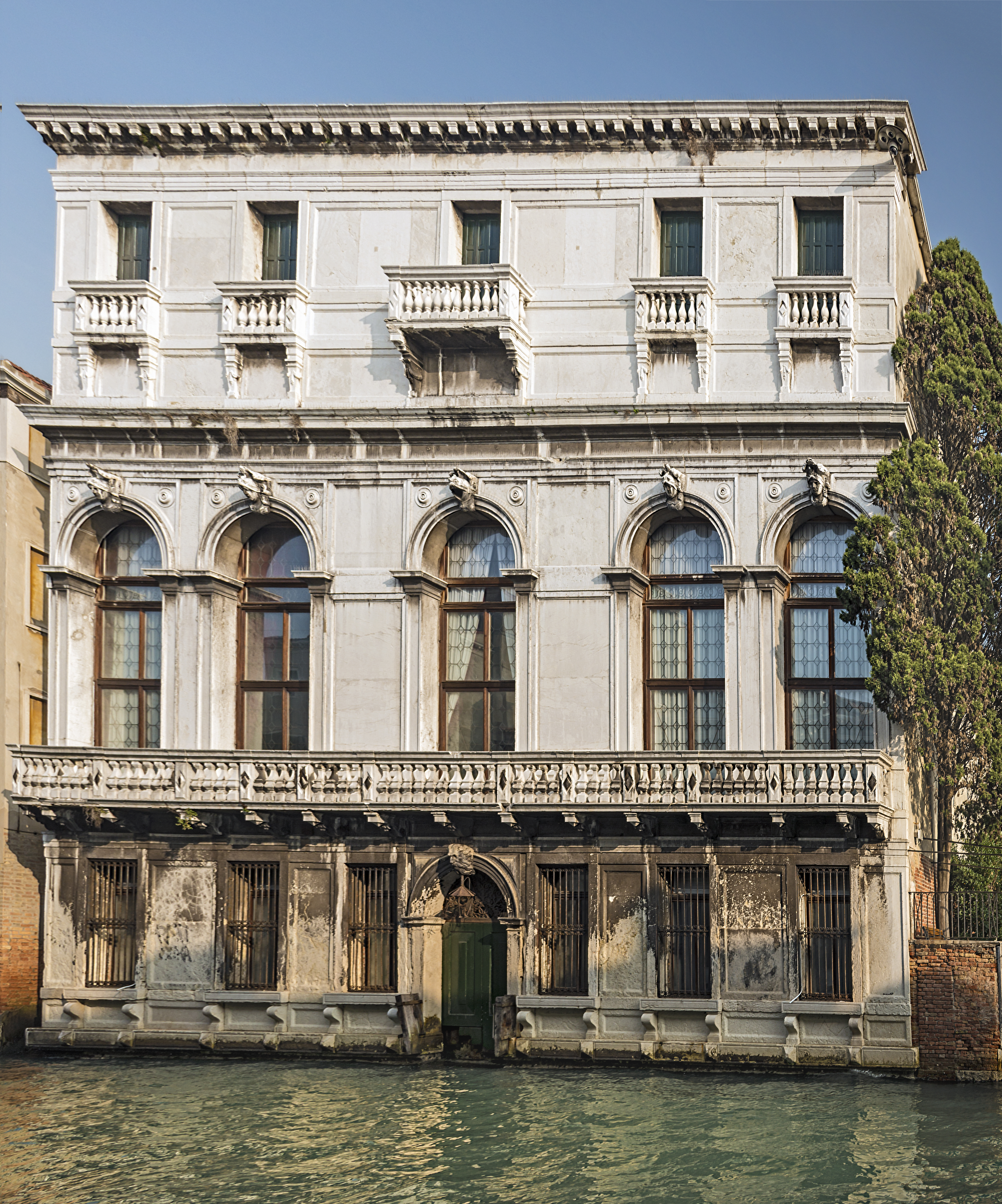 Ca' Dolfin (N.A. 3825e/3833) or Palace Secco Dolfin or Palace Dolfin in Venice – Facade on Rio di Ca'Foscari.